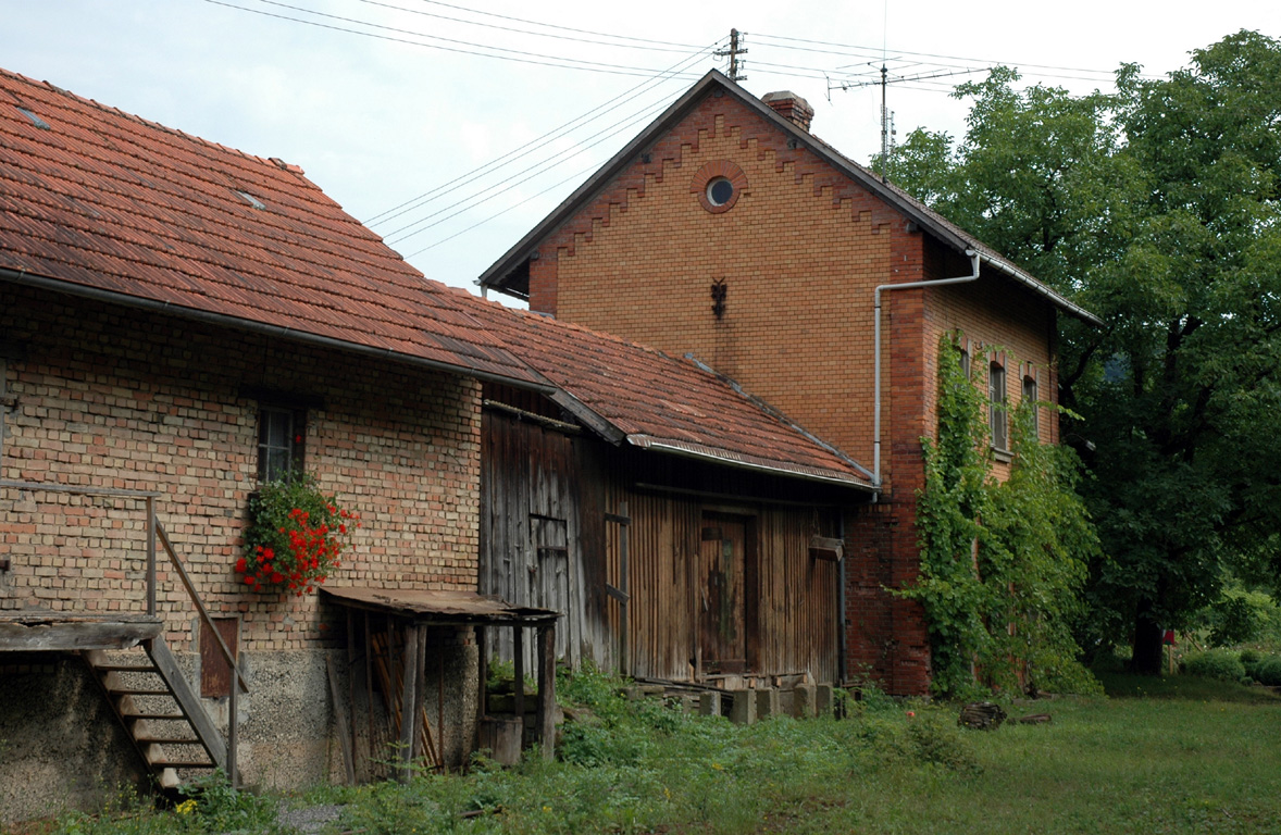 former station building of Jagst valley rail line in Widdern